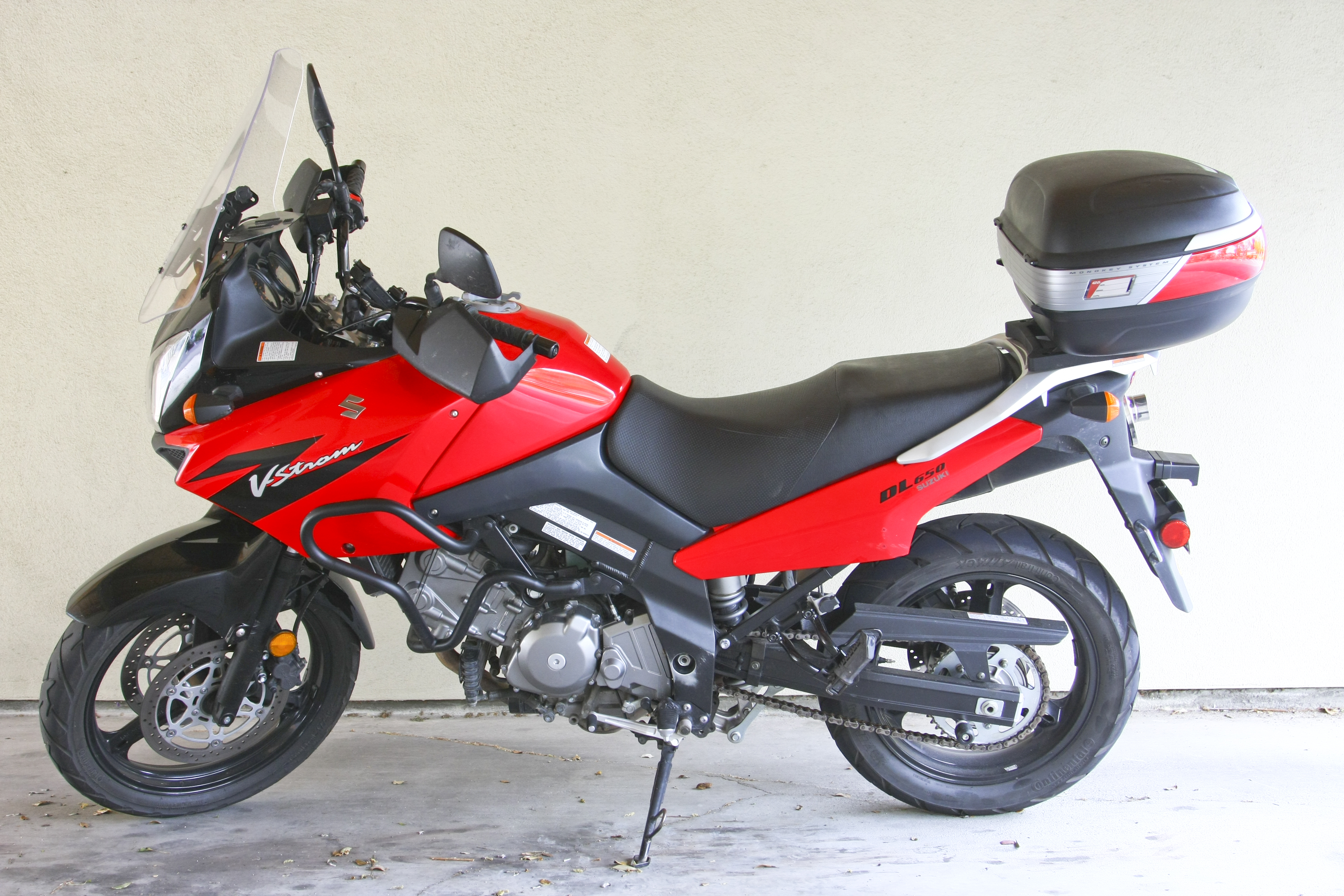 A 2005 Suzuki DL650 V-Strom with Cal-Sci medium windshield, Mad-Stad windshield bracket, Suzuki tall seat, and a Givi E52 top case.